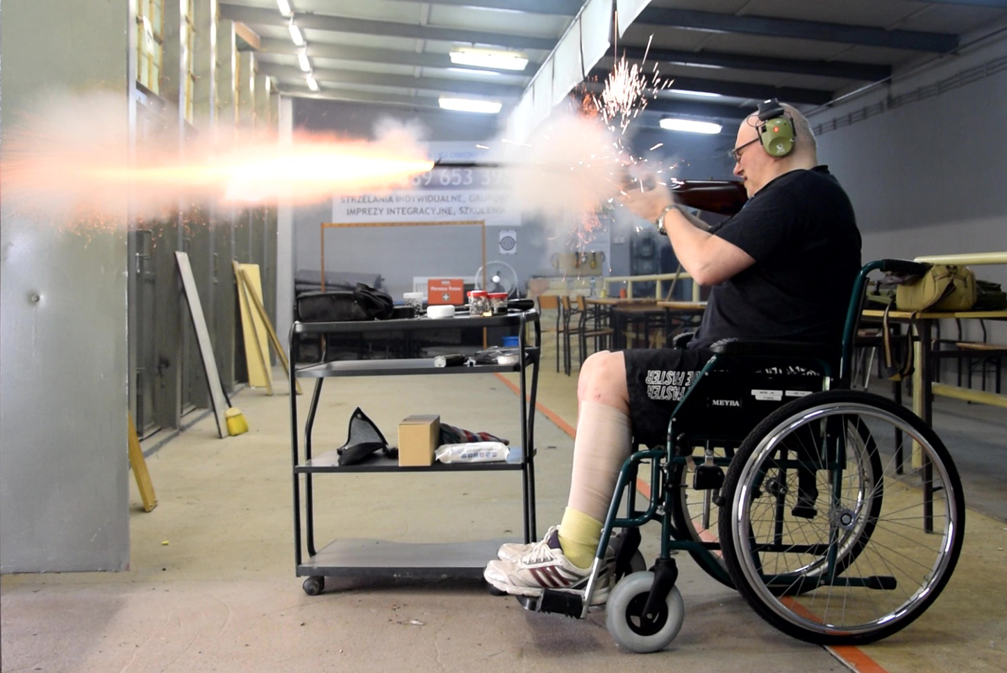 Shot off a black powder weapon